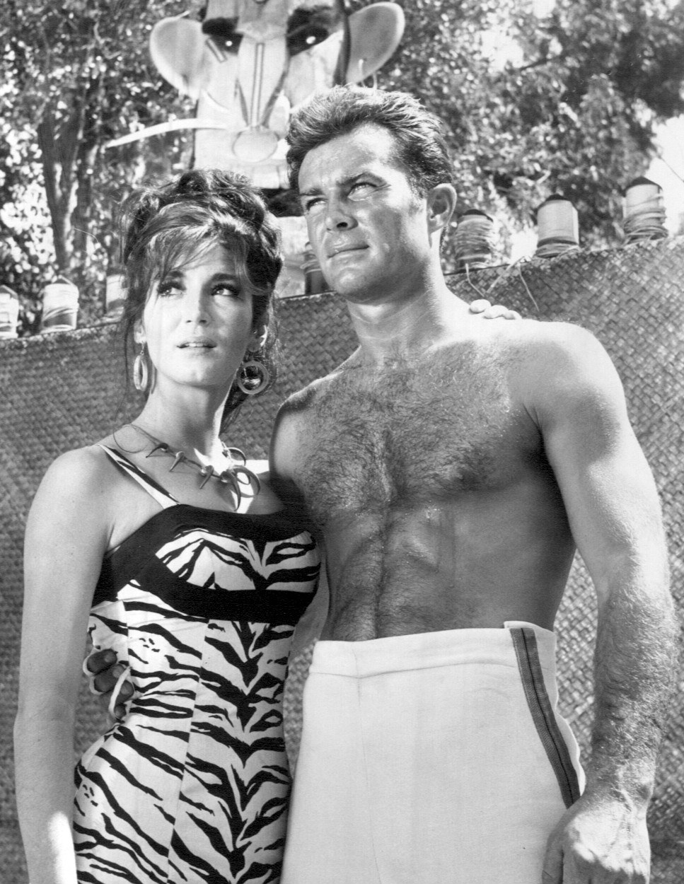 Photo of Julie Payne and Robert Conrad from the television series The Wild, Wild West.